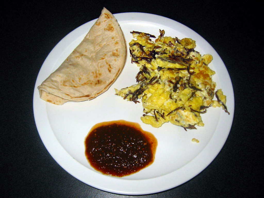 Machacado con huevo is a typical dish in the north of México, which consists of shredded dry beef with fried eggs. Hot sauce and wheat flour tortilla.